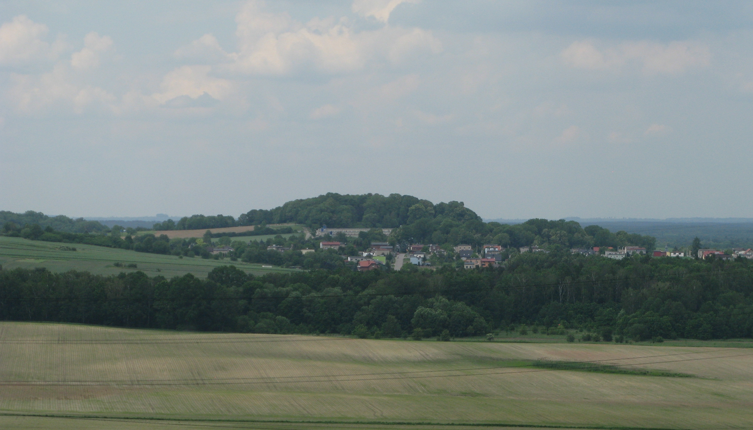 Piekary Śląskie Kozłowa Góra Winna Góra.